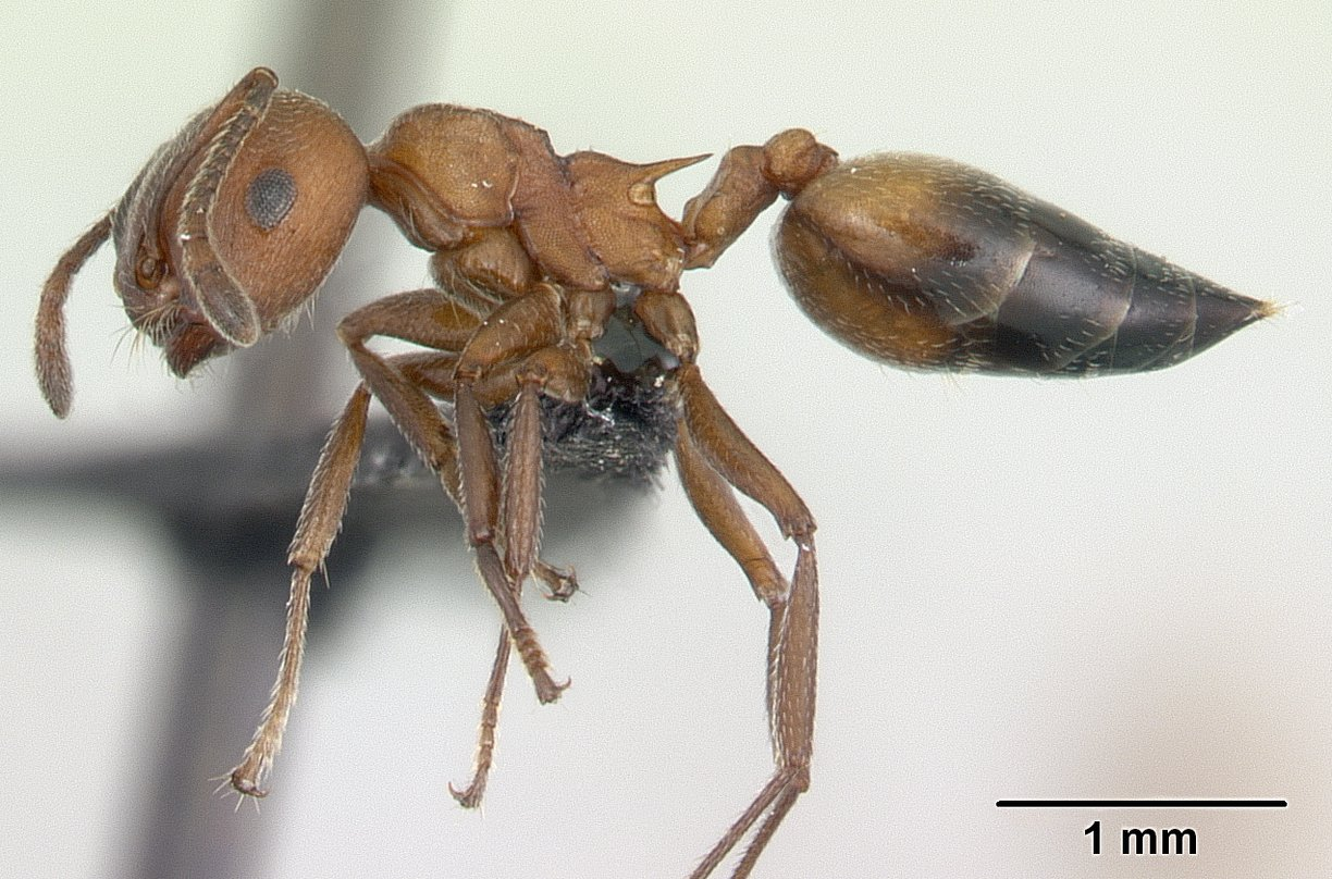 Profile view of ant Crematogaster castanea specimen casent0178194.